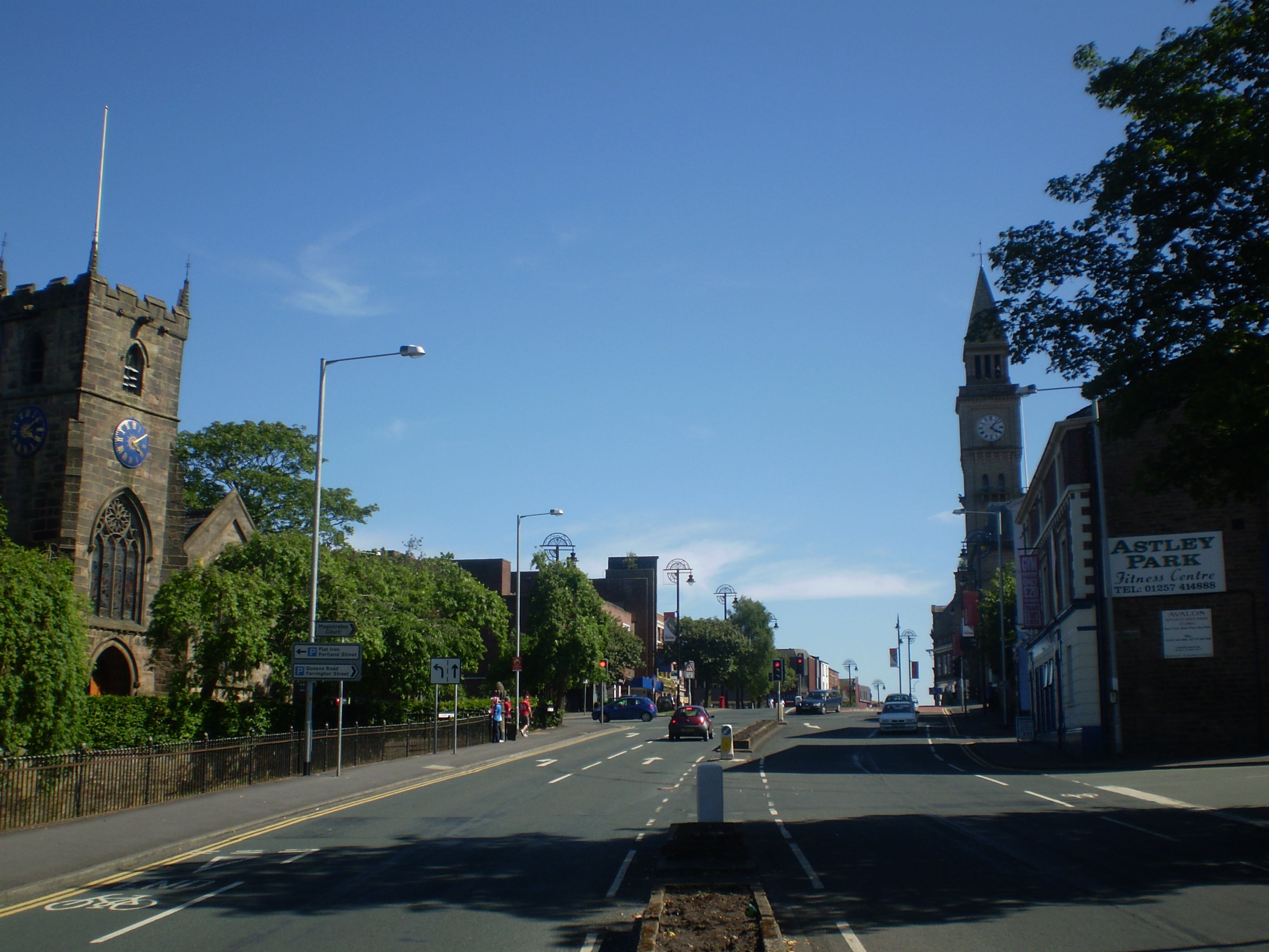 Entering Chorley Town Centre